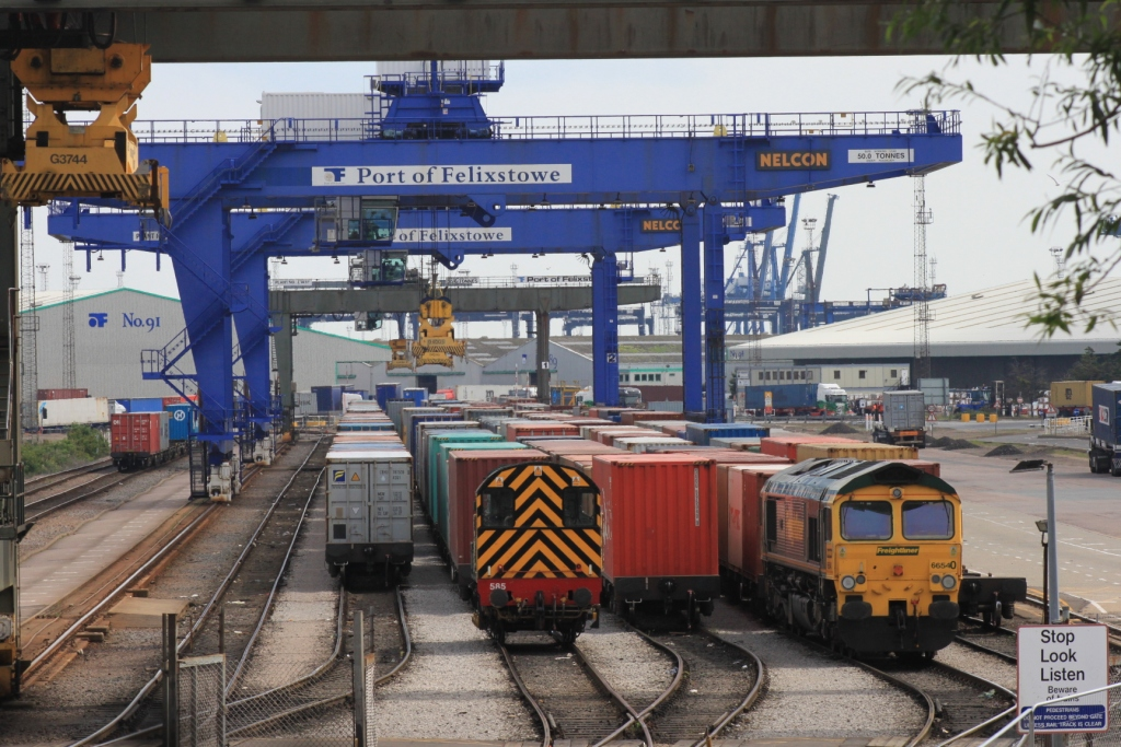 The North Frieghtliner Terminal of the Port of Felixstowe. Shunter 08585 (on the left) is cutting some wagons off a train, while 66540 (on the right) is waiting for the gantry cranes to complete the loading of its train.